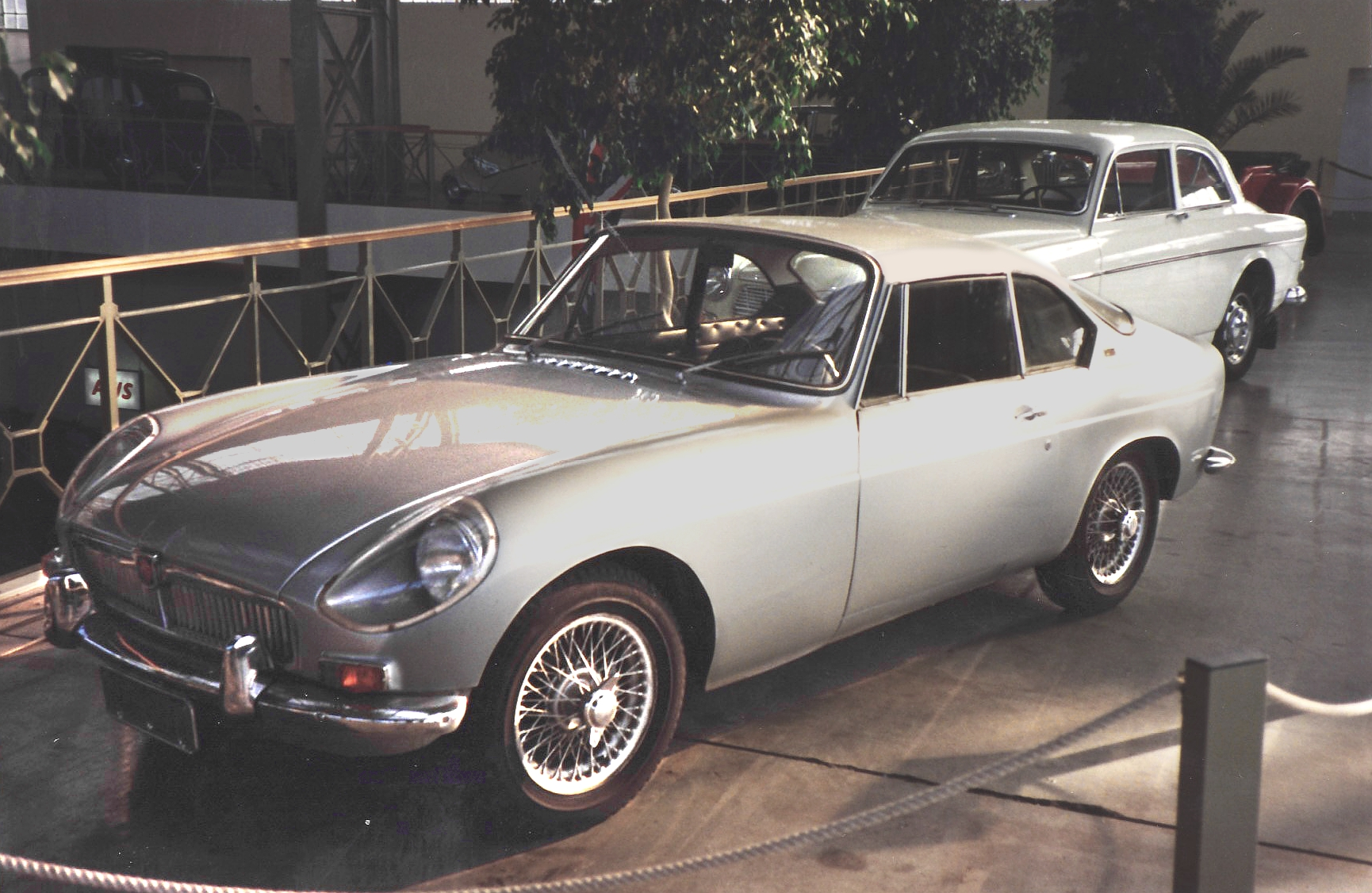 MGB Berlinette by Jacques Coune Carrossier of Belgium c.1964-70